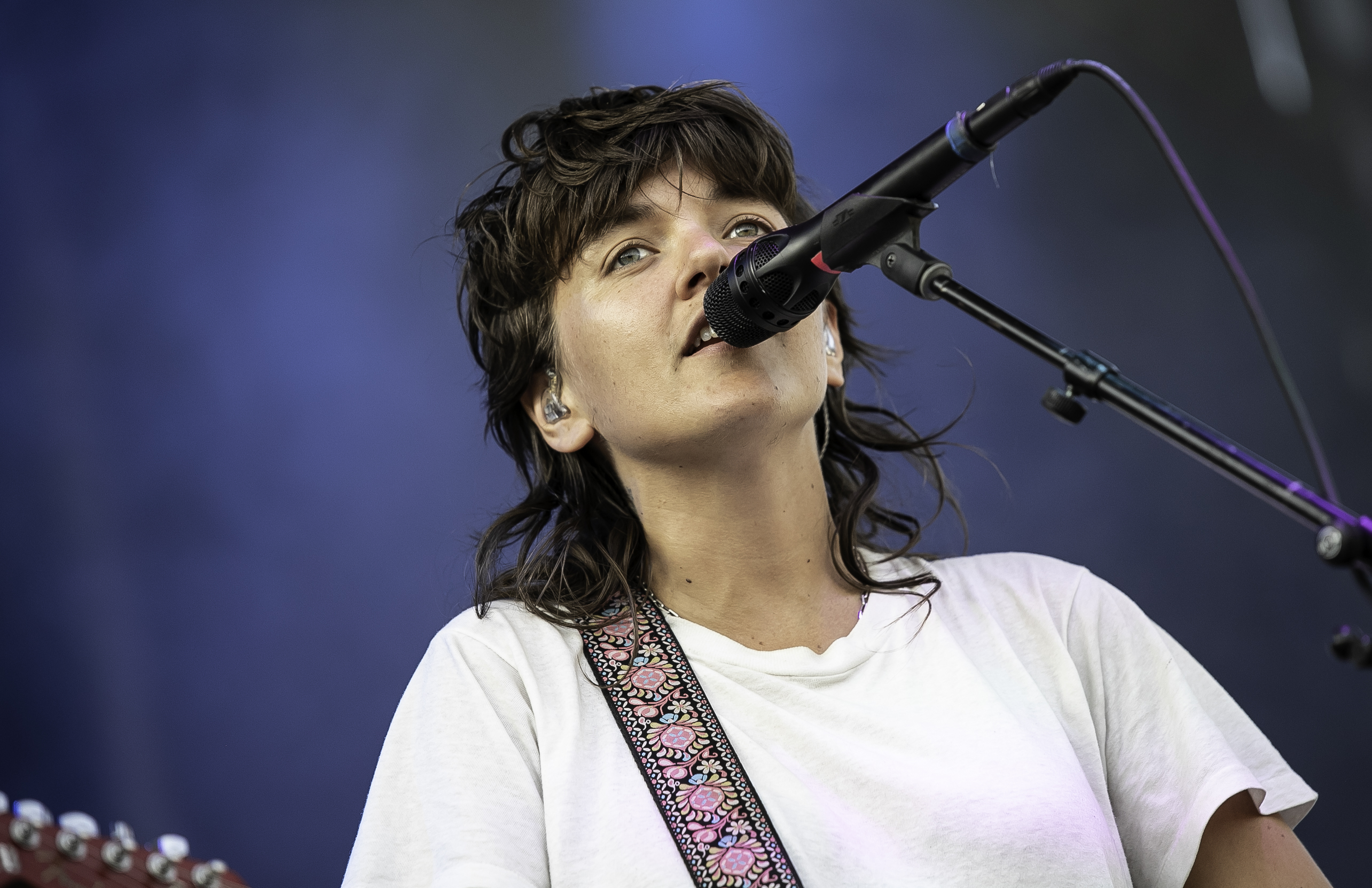 Courtney Barnett performing in 2019